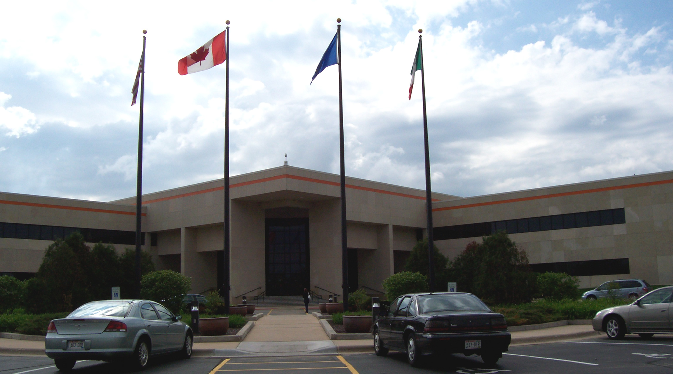 The headquarters for Schneider National trucking in metro Green Bay, Wisconsin, USA.